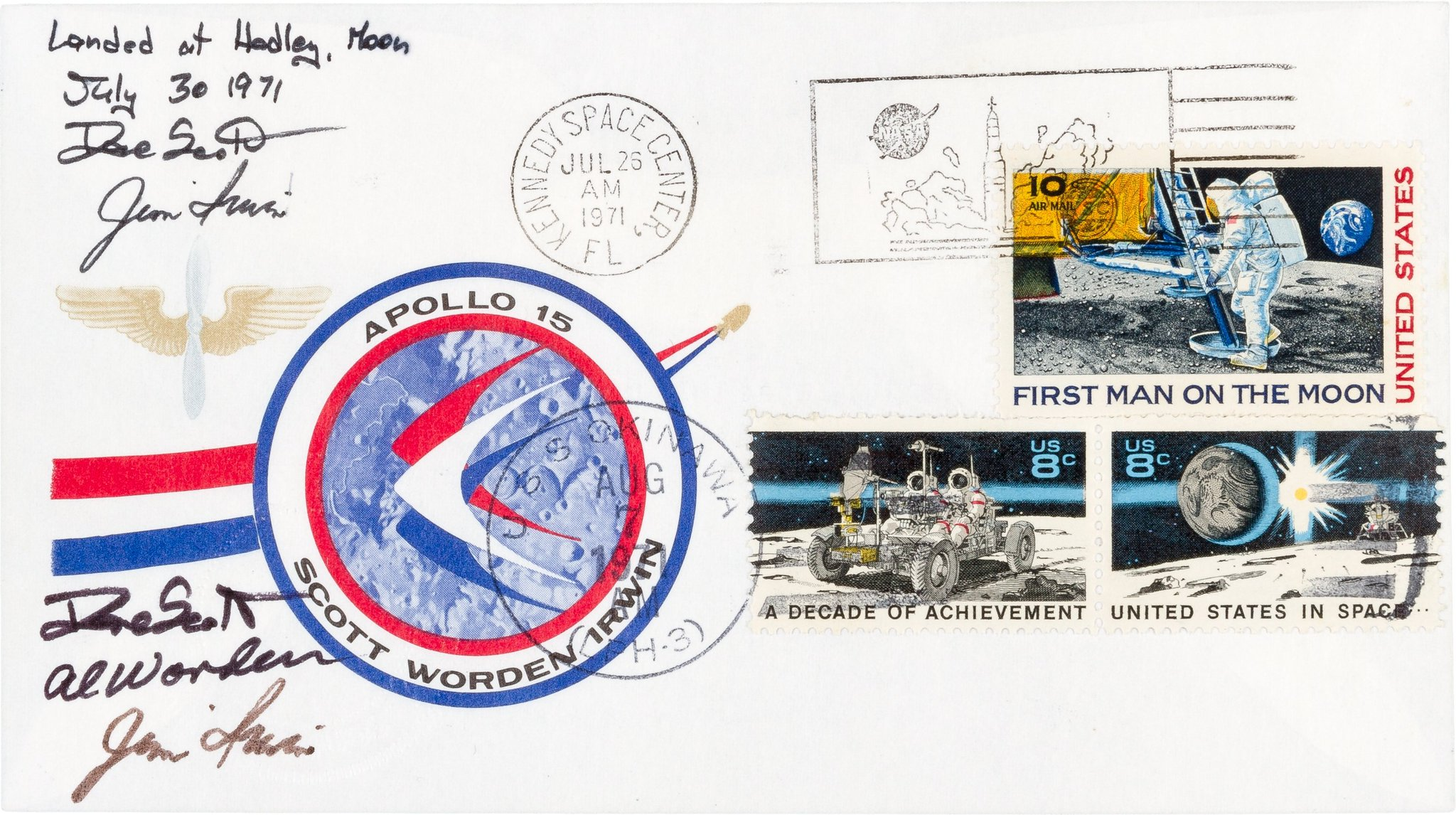 A "Sieger" cover prepared by NASA astronauts David Scott, Al Worden and James Irwin